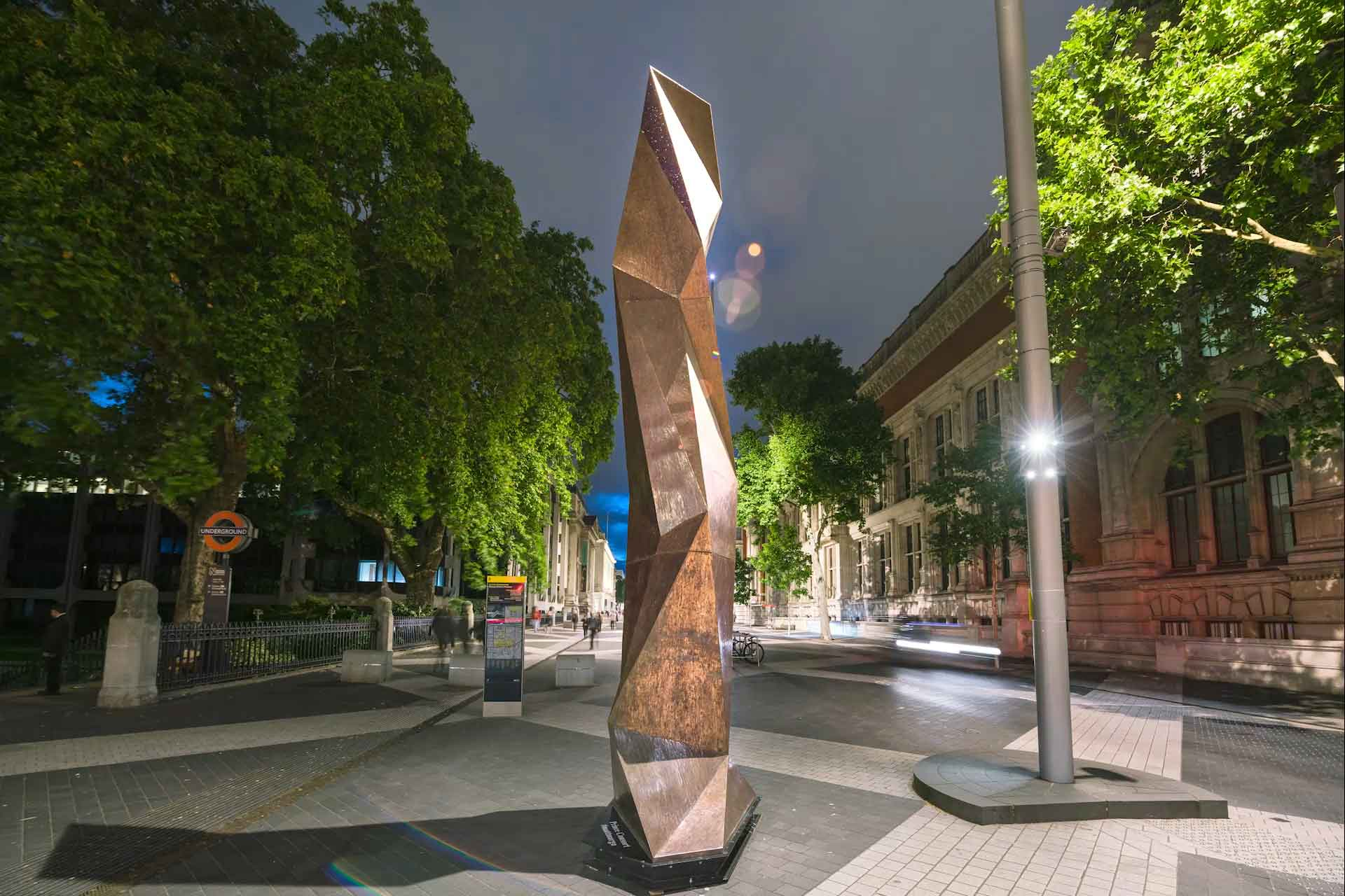 PRINCE CONSORT by MattMarga